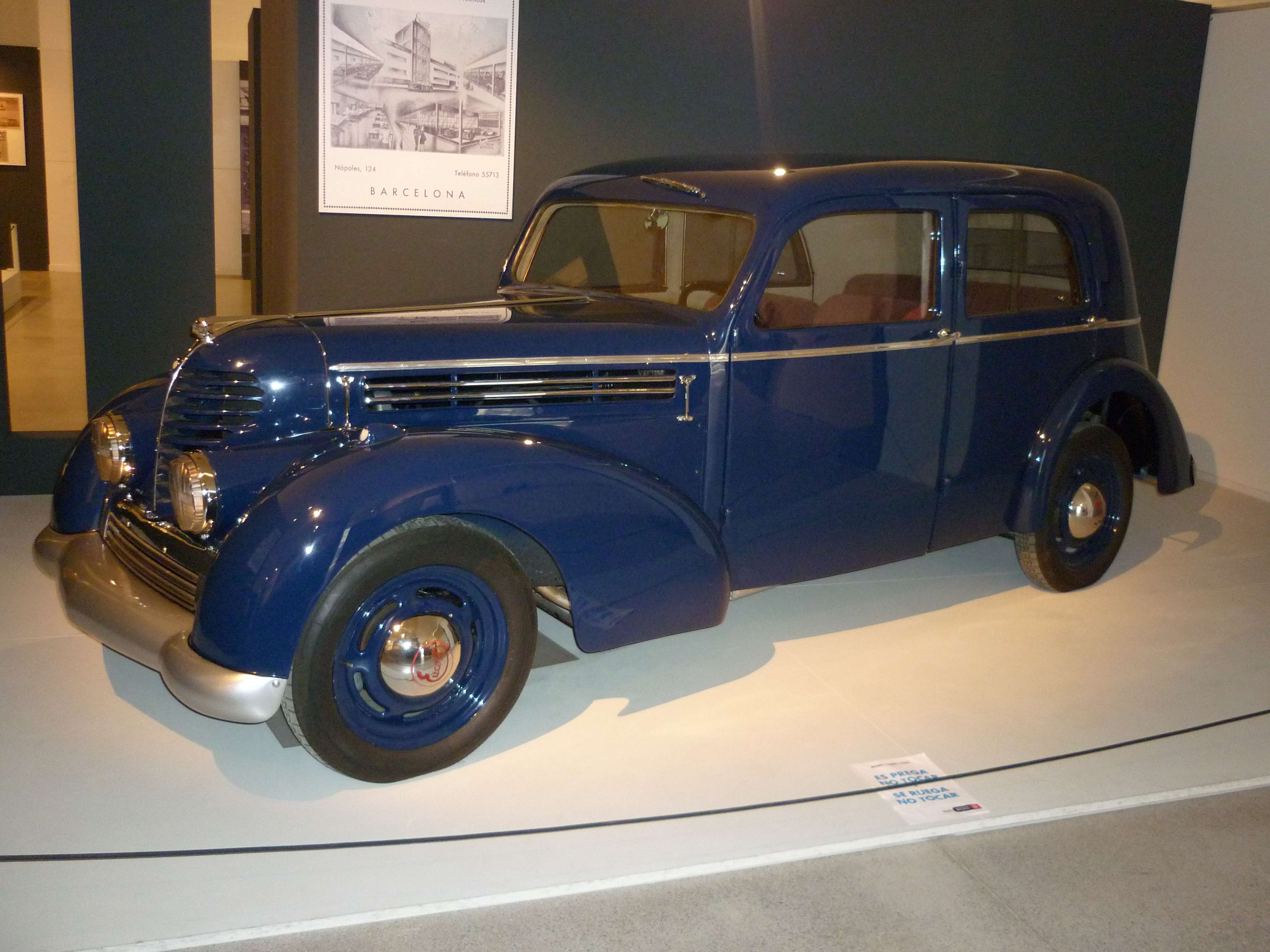 Eucort Turisme (1947), made in Barcelona (Catalonia)